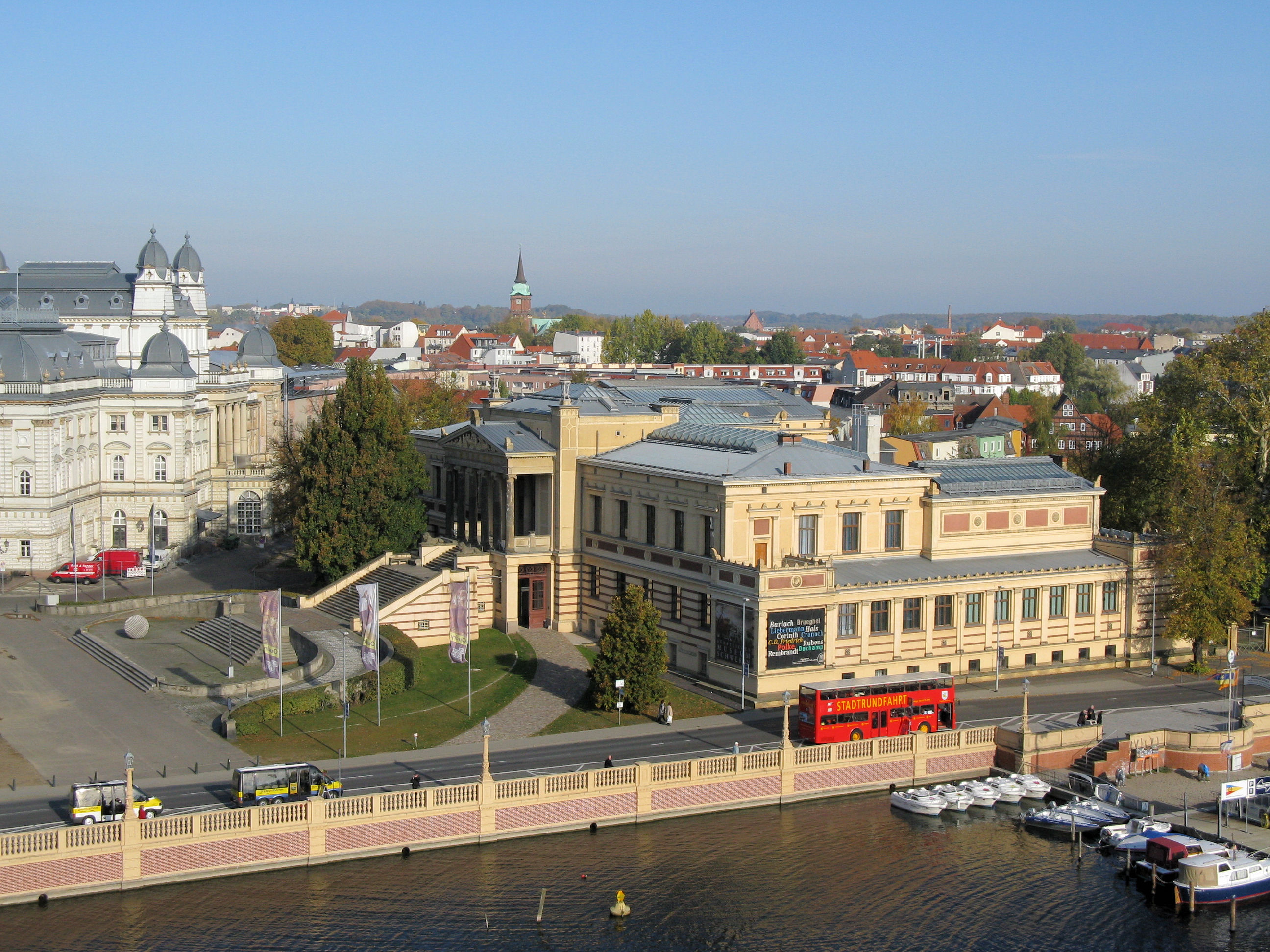 State Museum in Schwerin, Mecklenburg-Vorpommern, Germany